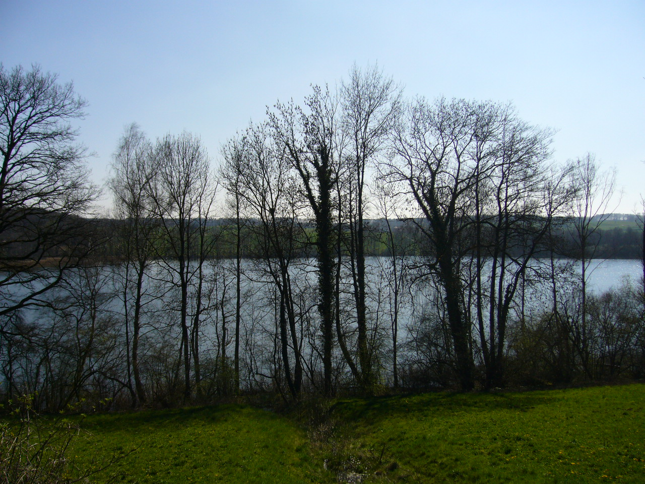 The lake of Huettwilen, Canton Thurgau, Switzerland. Picture from Peter Berger. April 6, 2007.